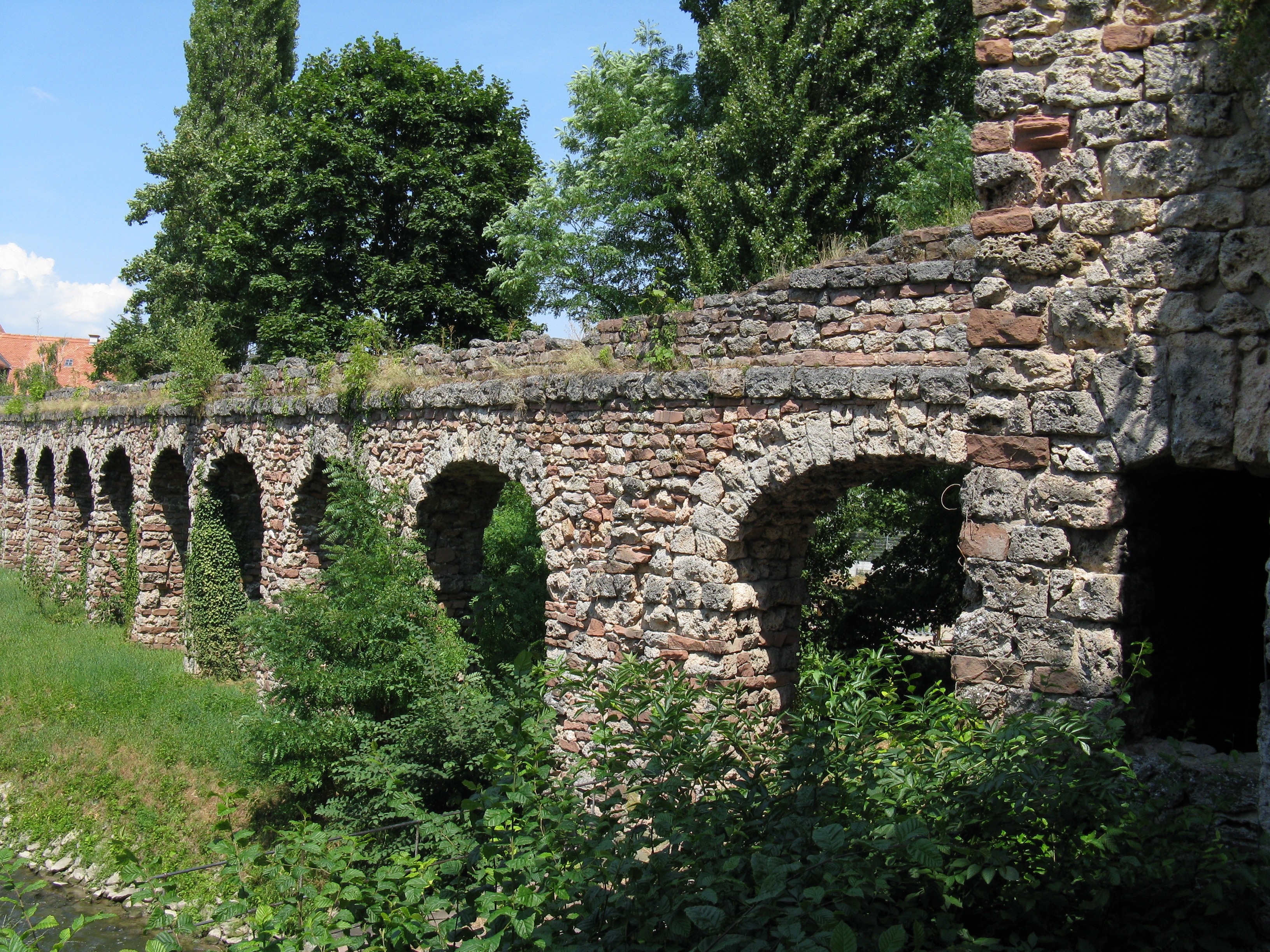 Schwetzingen, Germany, palace garden and Roman aqueduct